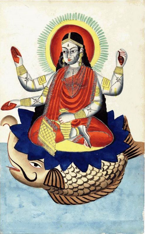 Ganga: "Digitized Kalighat paintings from 19th century Calcutta, created as inexpensive souvenirs for Hindu pilgrims visiting the famous temple of Kali"